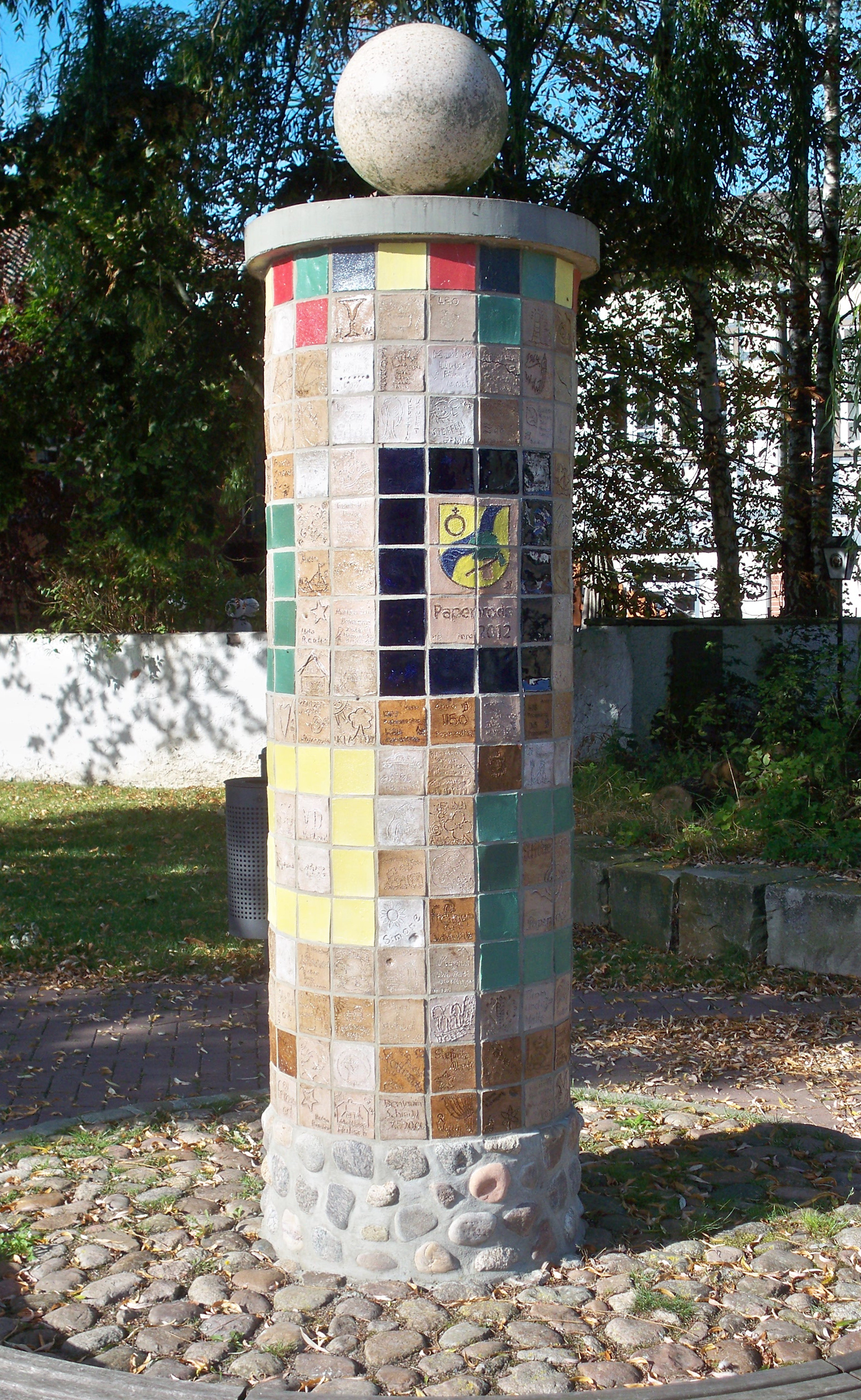 Papenrode, Groß Twülpstedt municipality, Lower Saxony, village monument with name plates of inhabitants